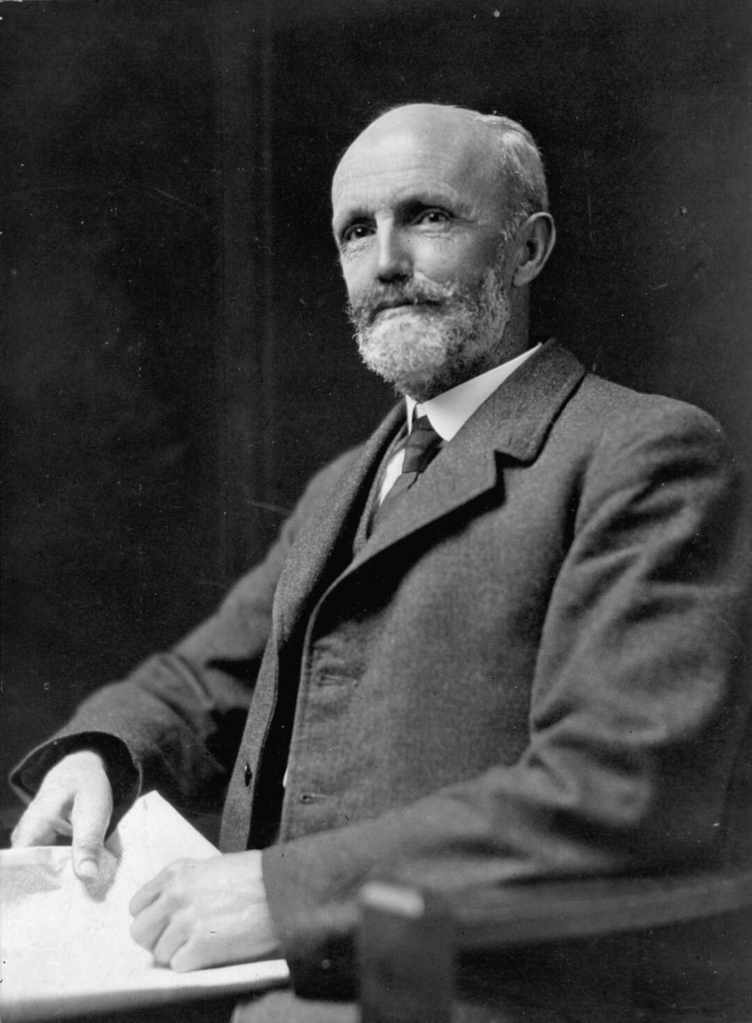 William Skinner in circa 1917